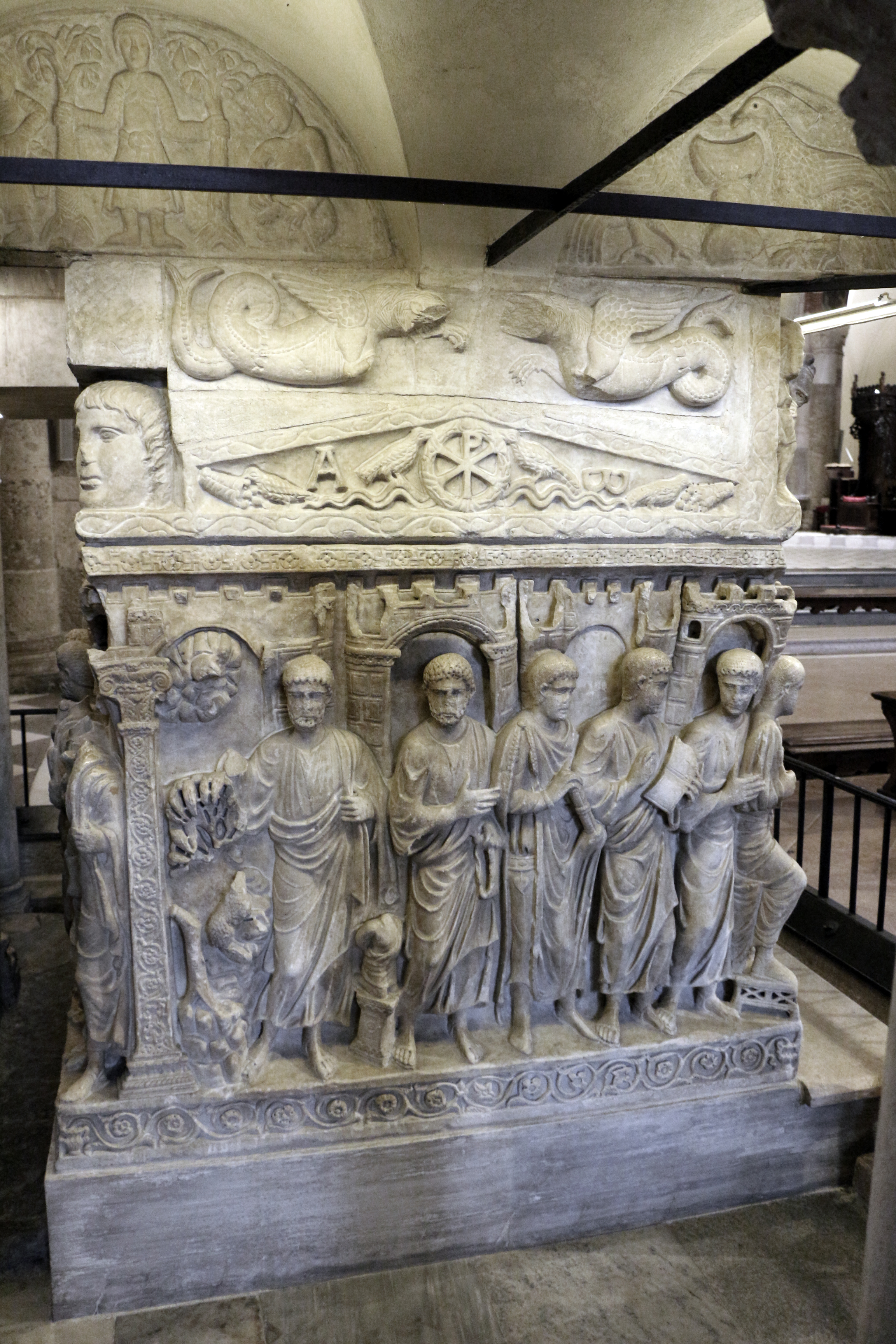 Sant'Ambrogio (Milan)